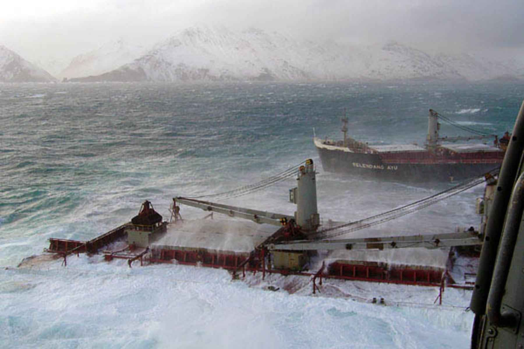 Image title: Ship wreck on open sea Image from Public domain images website